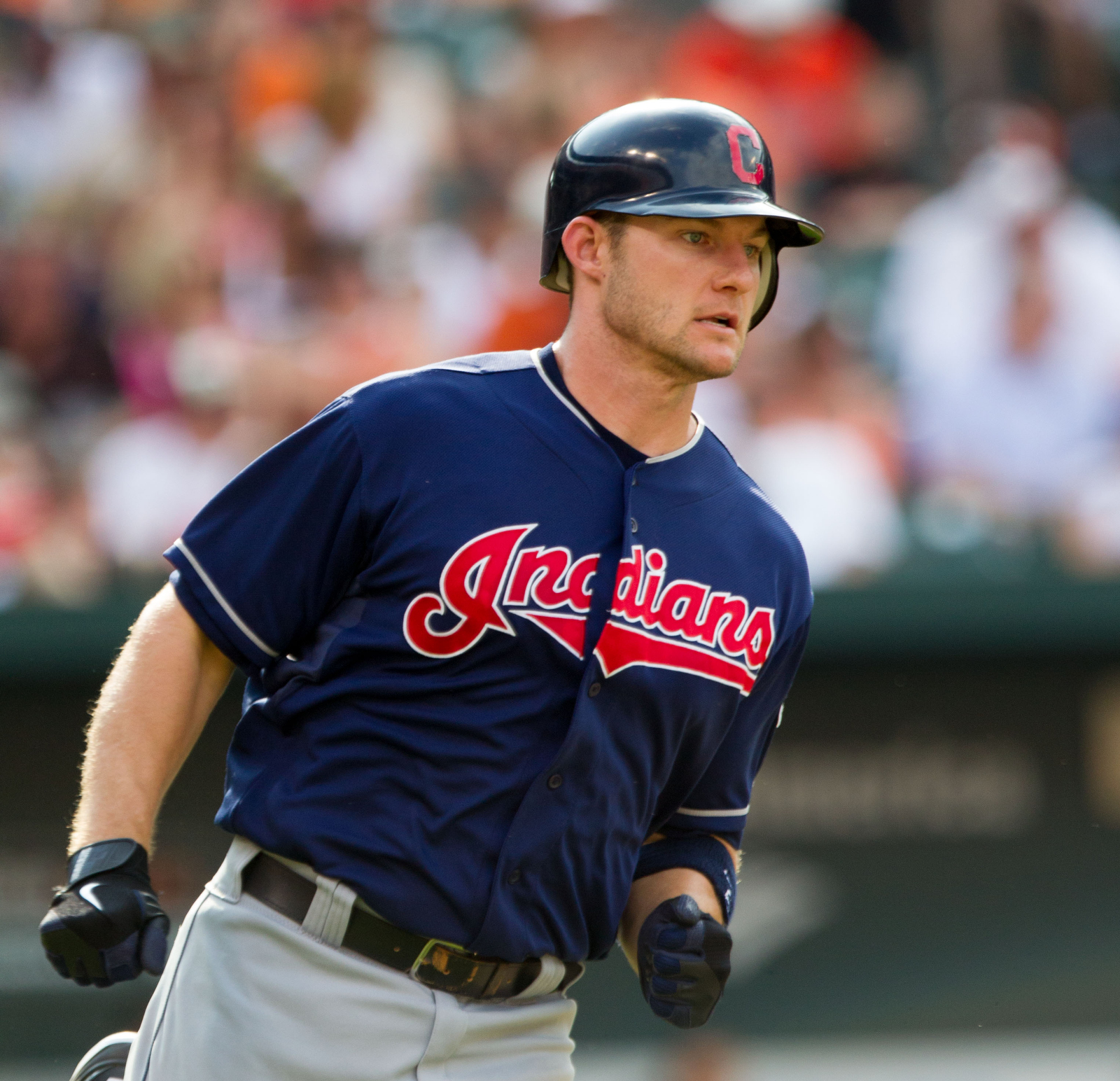 Lou Marson, the backup catcher of the Cleveland Indians